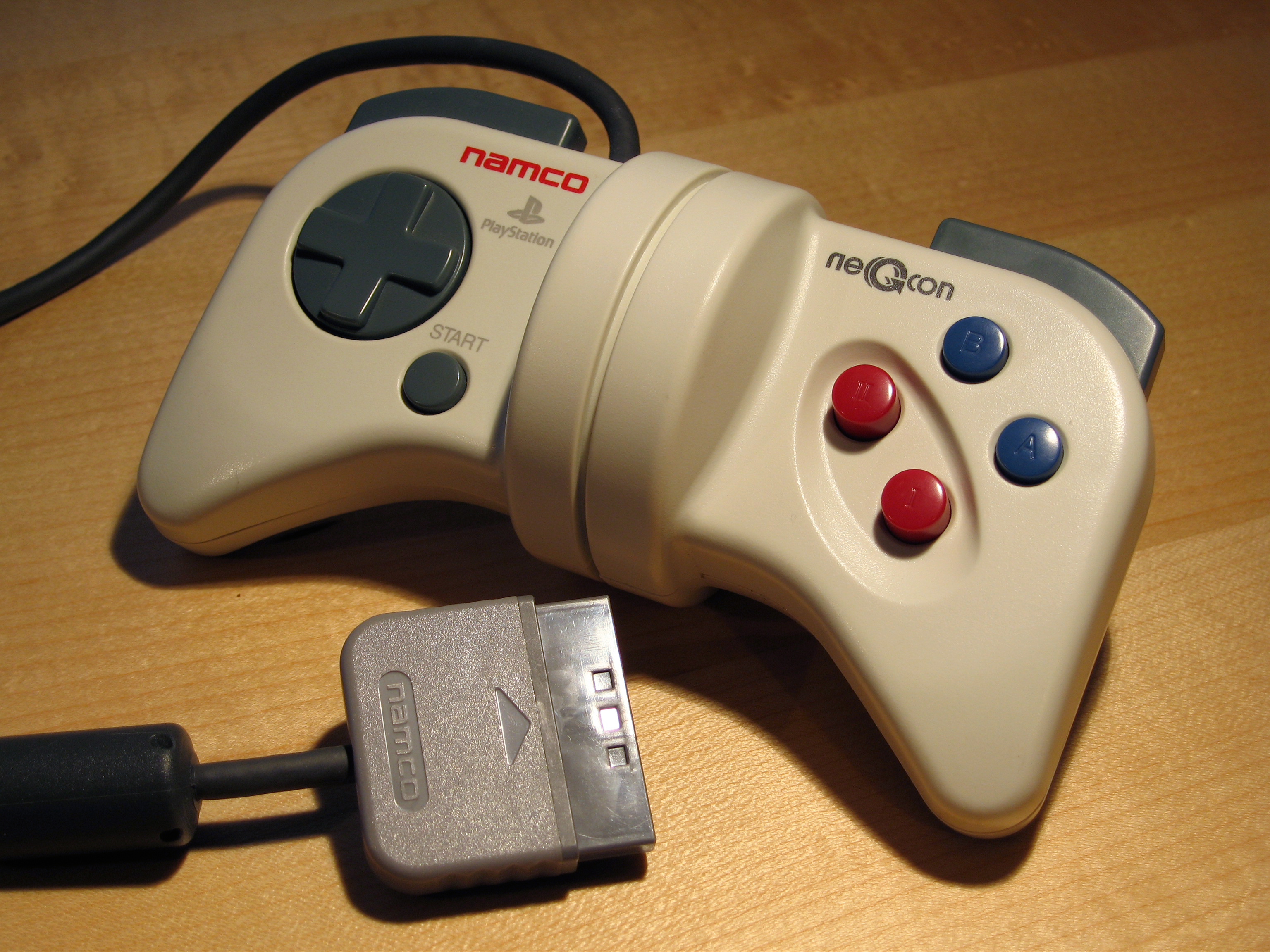 The neGcon controller, manufactured by Namco for the Sony PlayStation.